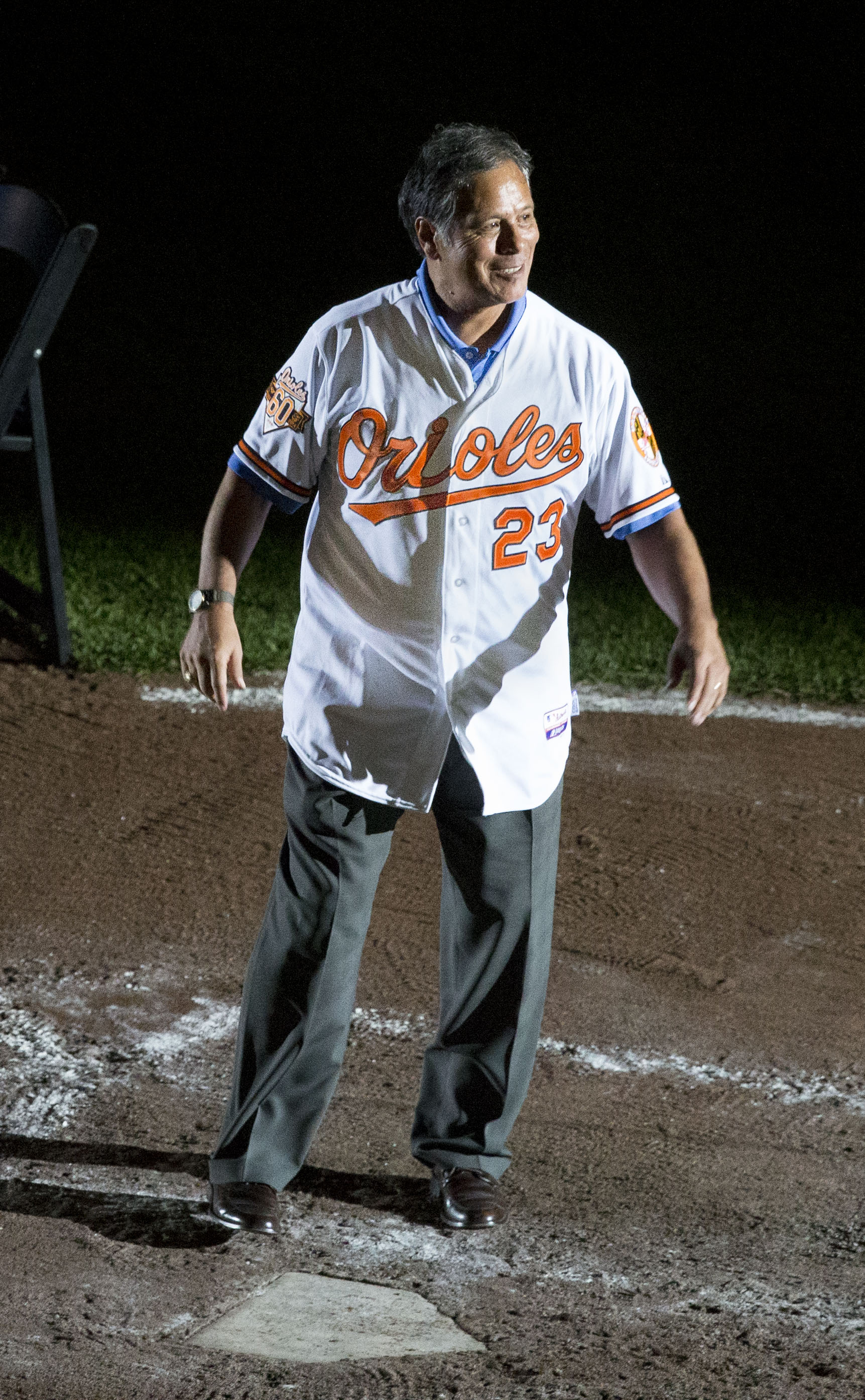 Tippy Martinez at Camden Yards in 2014